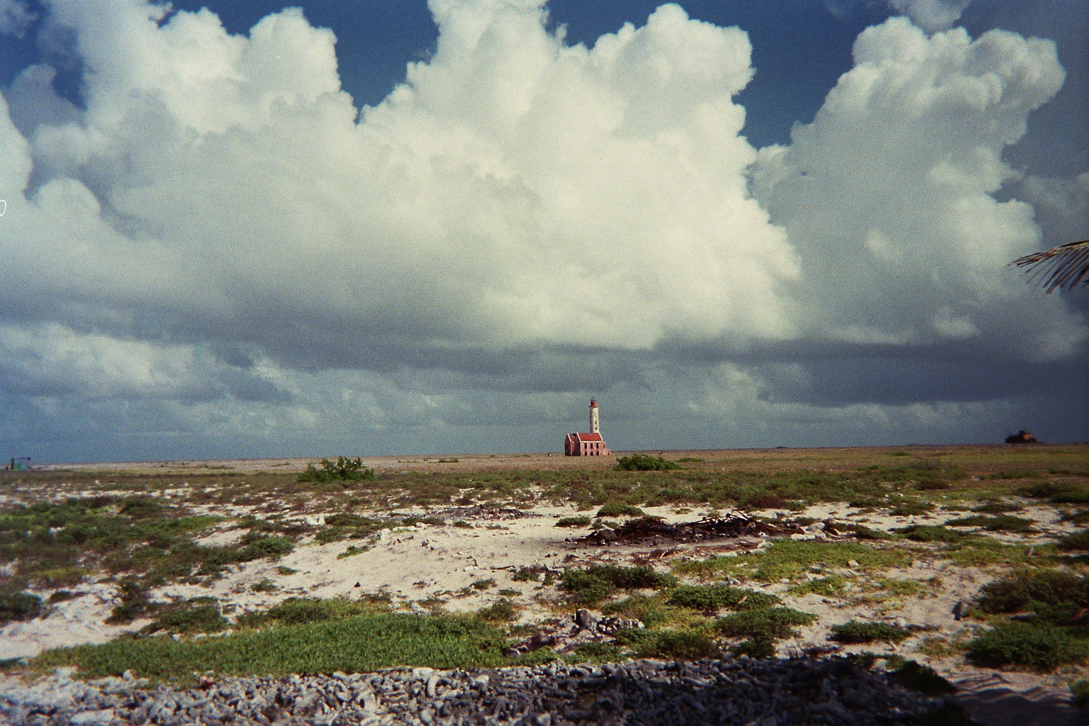 Klein Curaçao, Netherlands Antilles